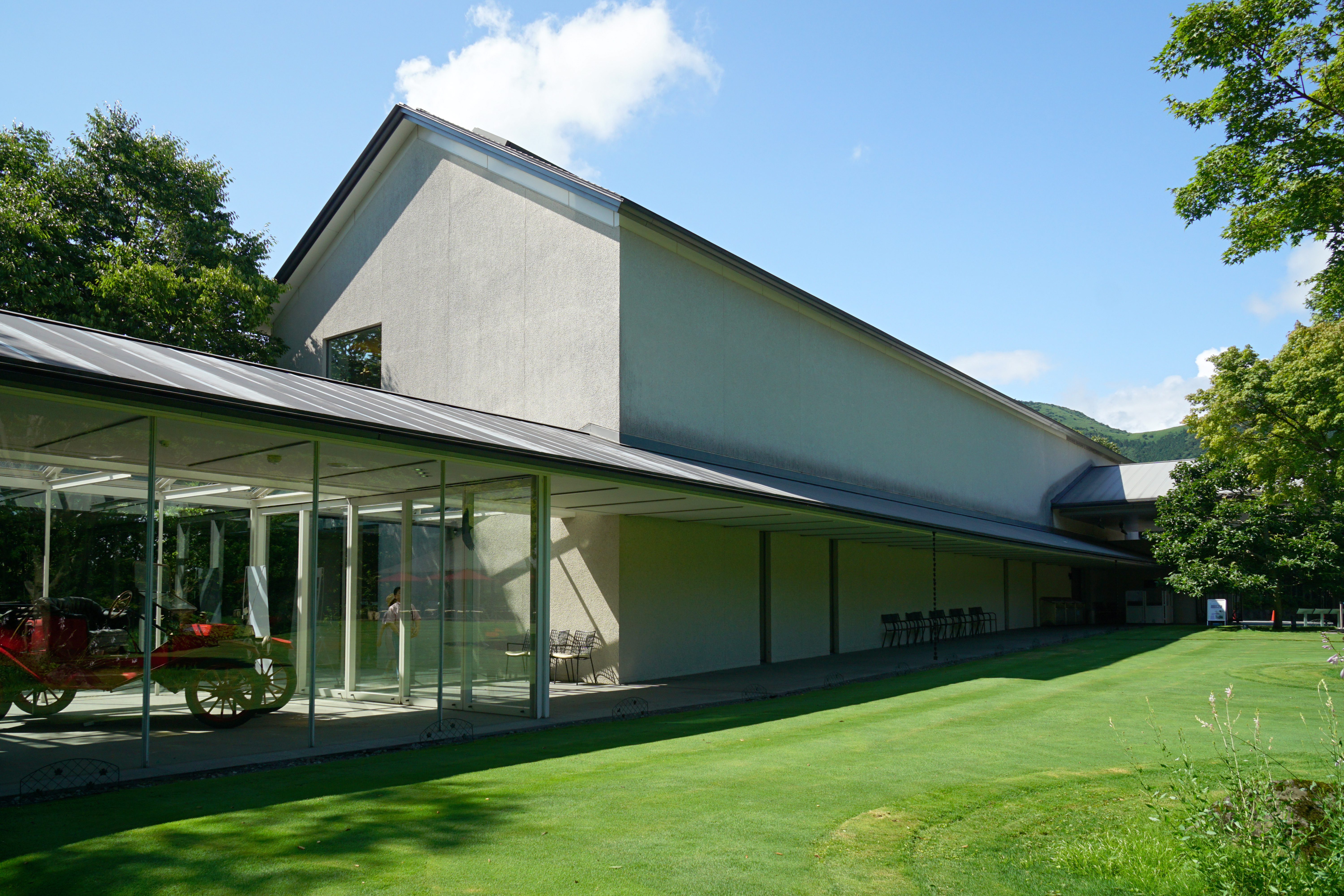 Hakone Lalique Museum in Hakone Kanagawa prefecture, Japan